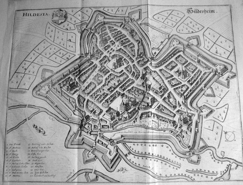 План міста 1653